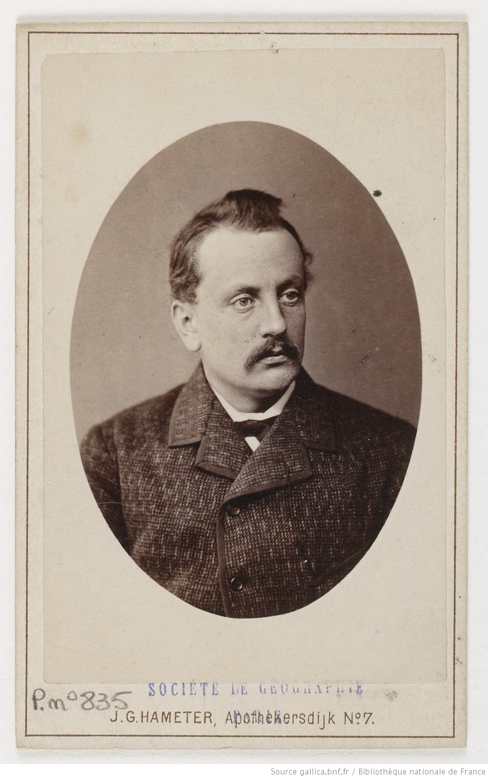 Photograph of Daniël David Veth by J.G. Hameter